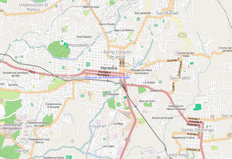 Map of Heredia, Costa Rica